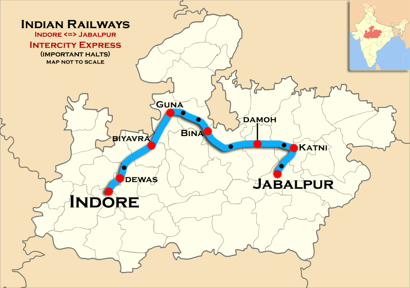 (Indore - Jabalpur) Express (Via Guna and Bina) Route map